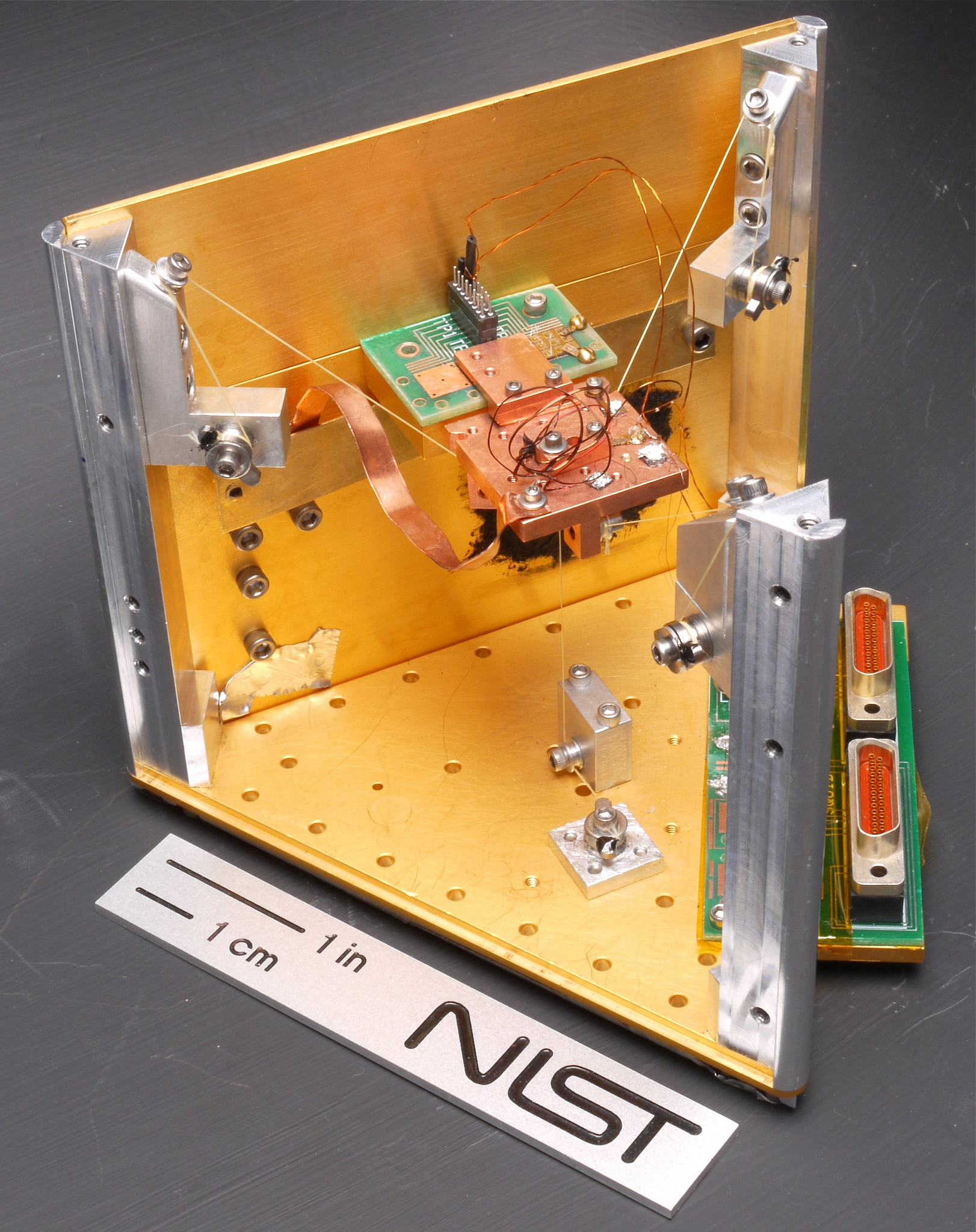 NIST's prototype solid-state refrigerator uses quantum physics in the square chip mounted on the green circuit board to cool the much larger copper platform (in the middle of the photo) below standard cryogenic temperatures. Other objects can also be attached to the platform for cooling. Credit: Schmidt/NIST Disclaimer: Any mention of commercial products within NIST web pages is for information only; it does not imply recommendation or endorsement by NIST. Use of NIST Information: These World Wide Web pages are provided as a public service by the National Institute of Standards and Technology (NIST). With the exception of material marked as copyrighted, information presented on these pages is considered public information and may be distributed or copied. Use of appropriate byline/photo/image credits is requested.